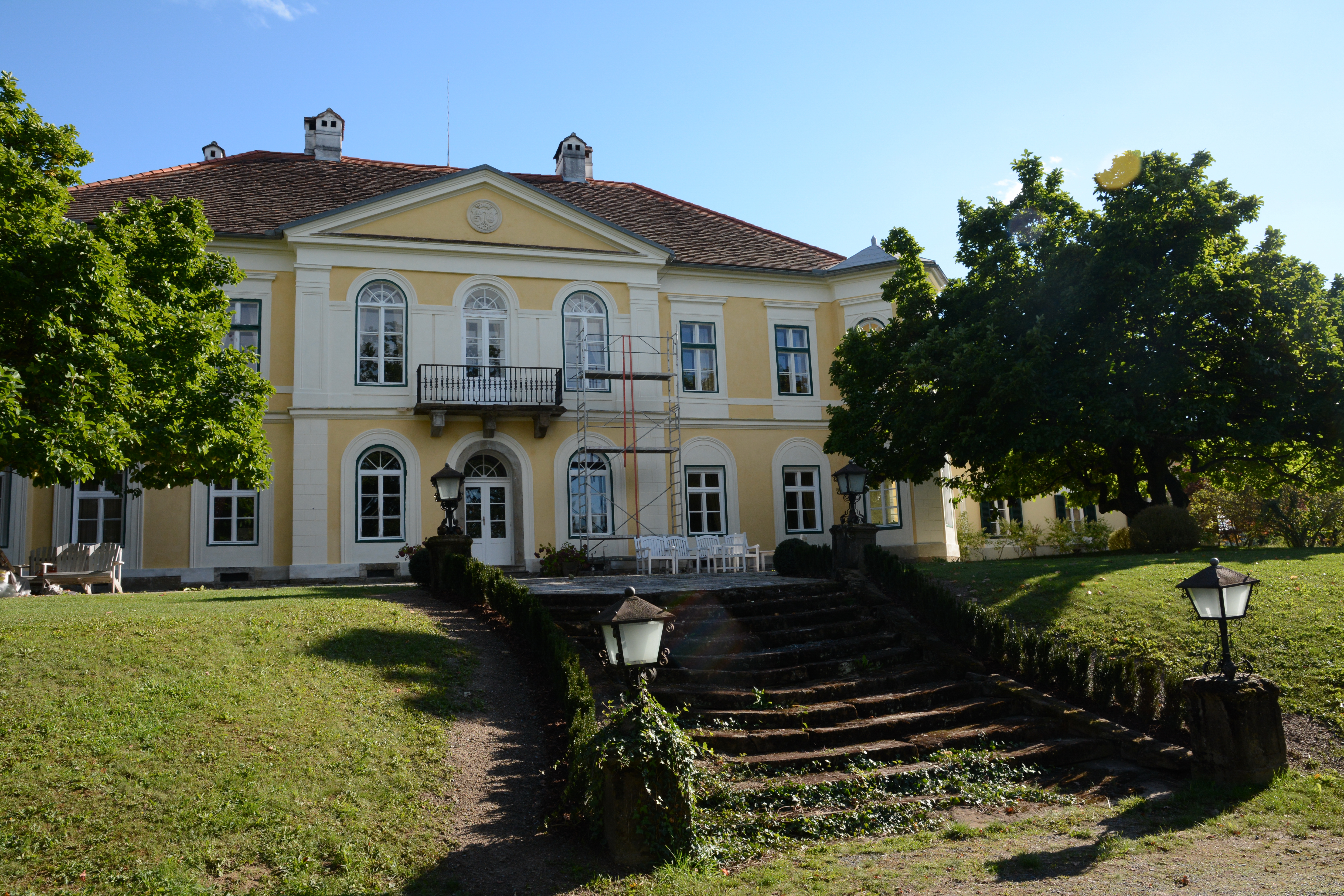 Castle Batthyany